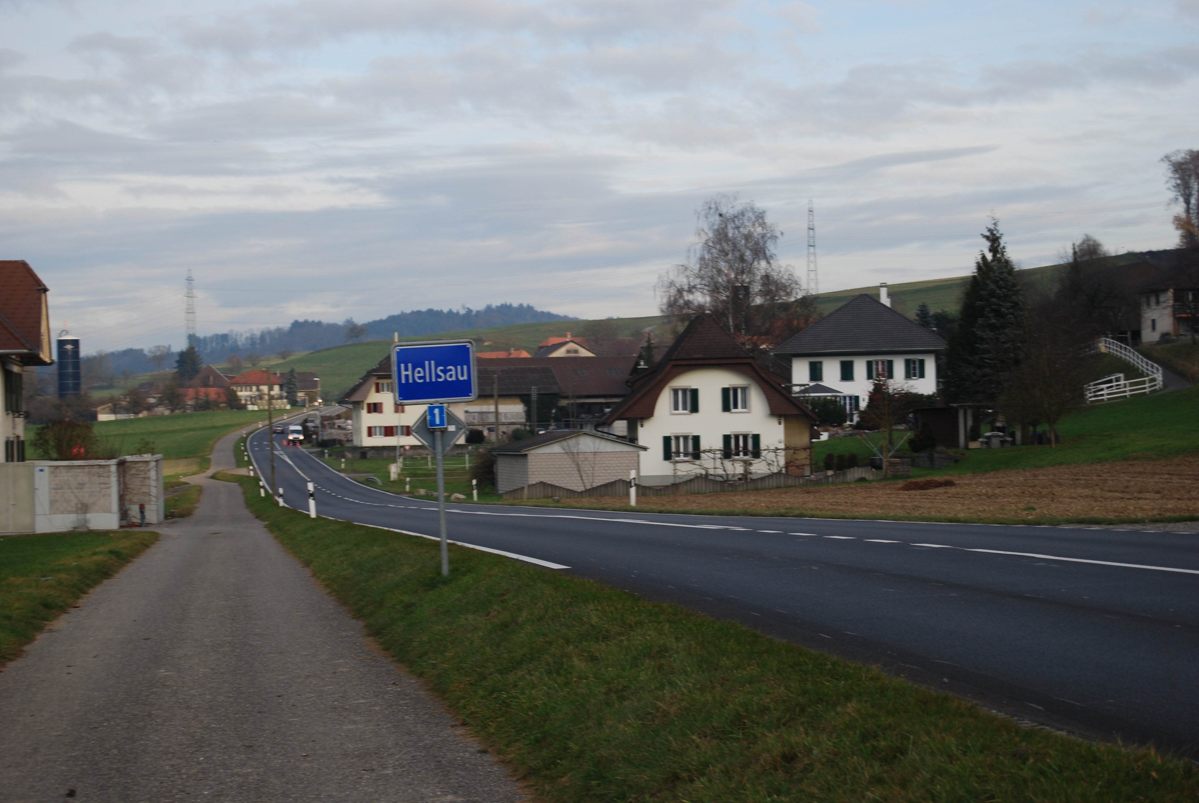 Hellsau, canton of Bern, SwitzerlandEsperanto: Hellsau, Kantono Berno, Svislando